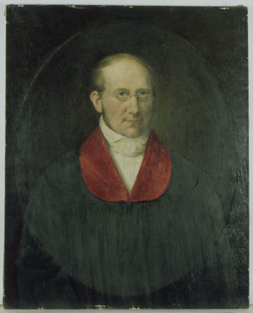 Potrait of Hermann Friedrich Stannius as Professor of the University of Rostock